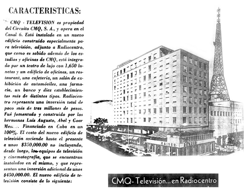 Radiocentro CMQ Building_Caracteristicas. Havana, Cuba